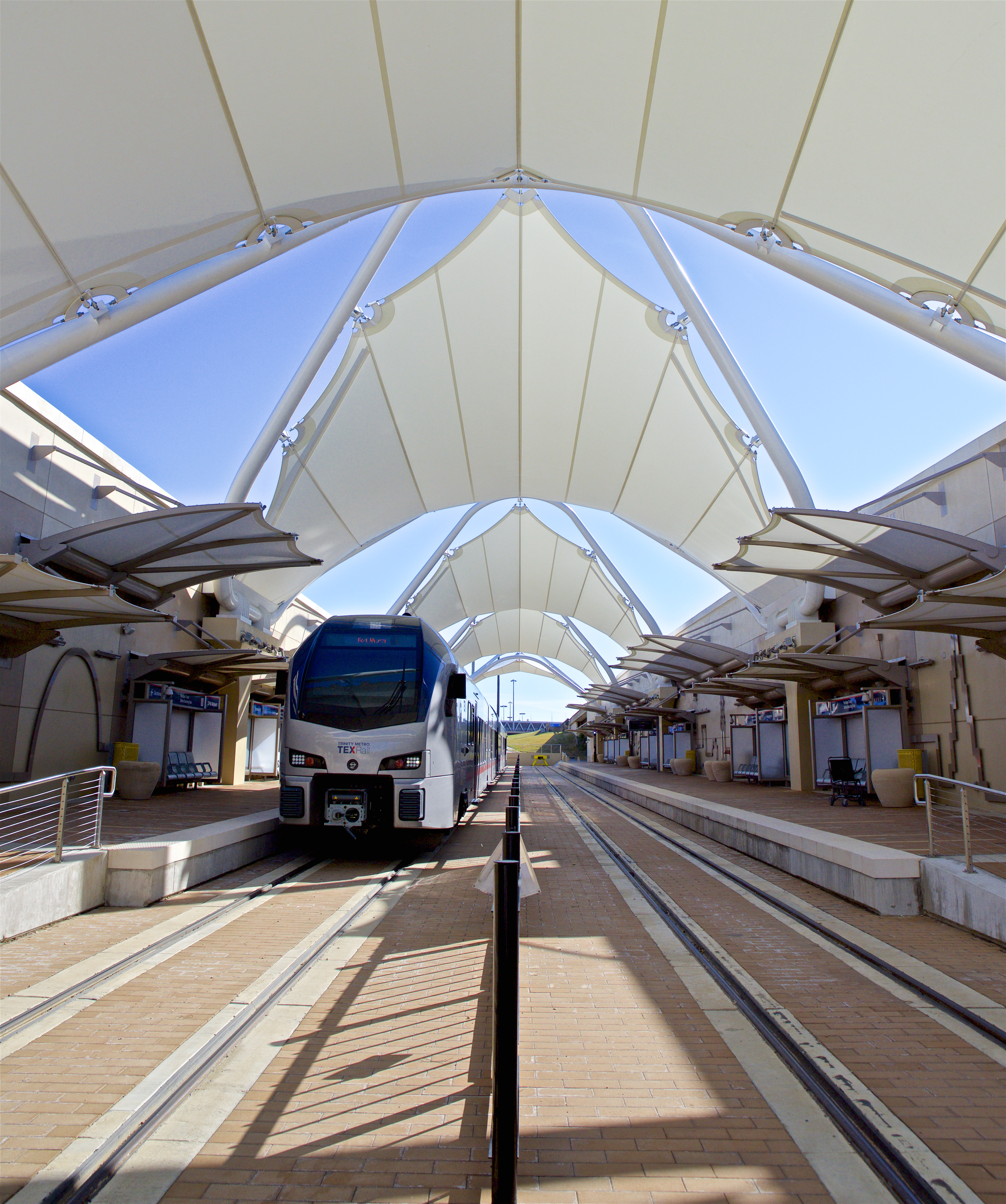 View of DFW Airport Terminal B Station, looking south from the pedestrian crosswalk at the north end of the platform.